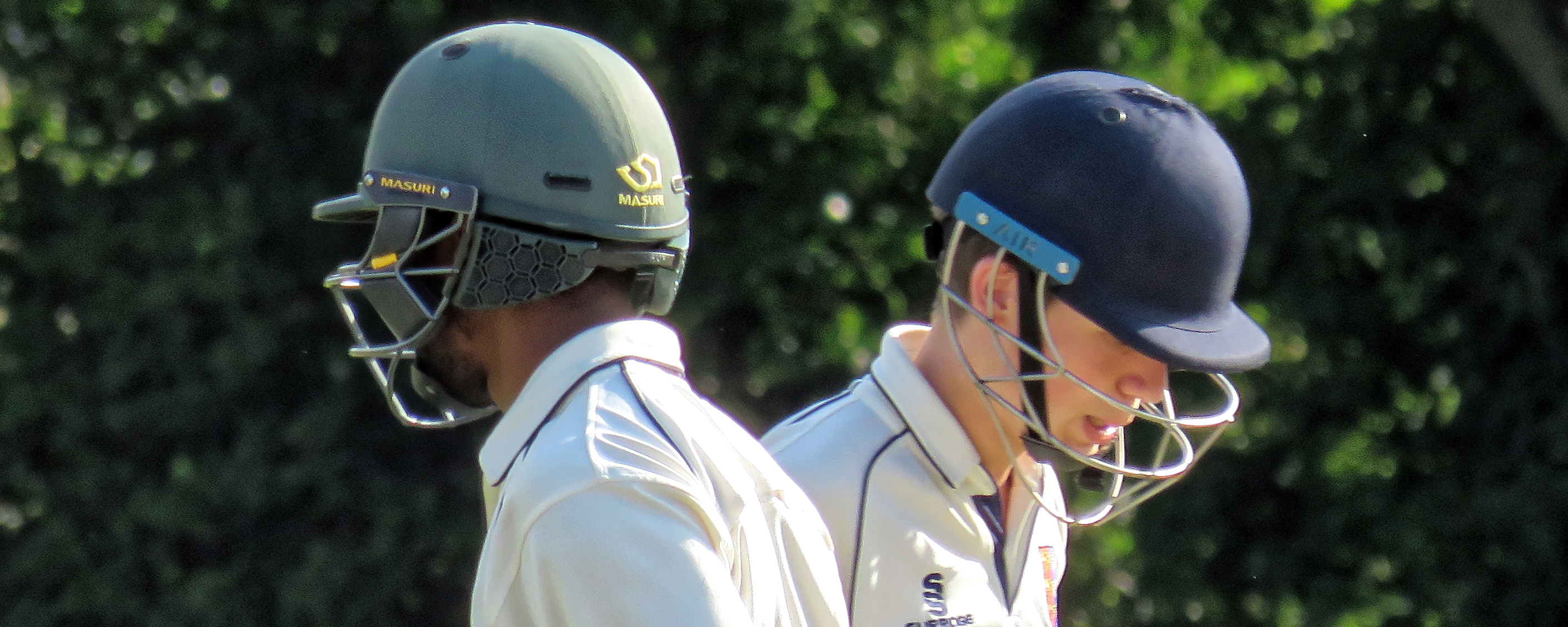 A public friendly cricket match between Sandwich Town Cricket Club (batting), of the Kent Cricket League, and Marylebone Cricket Club Friendly XI at Sandwich, Kent, England.Mobile device view: Wikimedia (as at 2019) makes it difficult to immediately view photo groups related to this image. To see its most relevant allied photos, click on Sandwich Town Cricket Club, and this uploader's cricket photos. You can add a beta click-through 'categories' button to the very bottom of photo-pages you view by going to settings... three-bar icon top left.Desktop view: Wikimedia (as at 2019) makes it difficult to immediately view the helpful category links where you can find images related to this one in a variety of ways; for these go to the very bottom of the page.This image is one of a series of date and/or subject allied consecutive photographs kept in progression or location by file name number and/or time marking.Camera: Canon PowerShot SX60 HSSoftware: File lens-corrected, optimized, perhaps cropped, with DxO PhotoLab, and likely further optimized with Adobe Photoshop CS2.